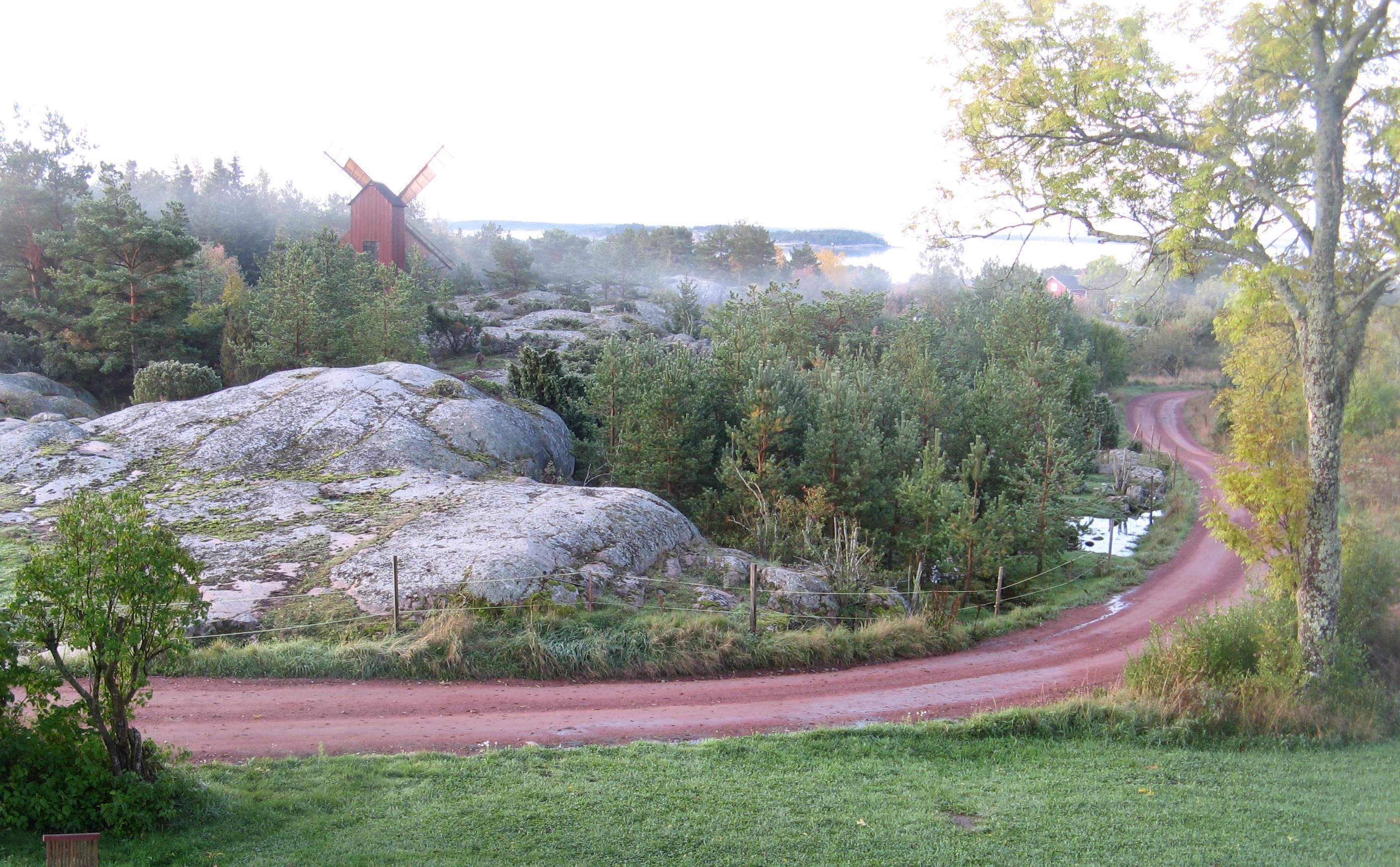 Morning in Östra Simskäla in Vårdö, Åland, Finland